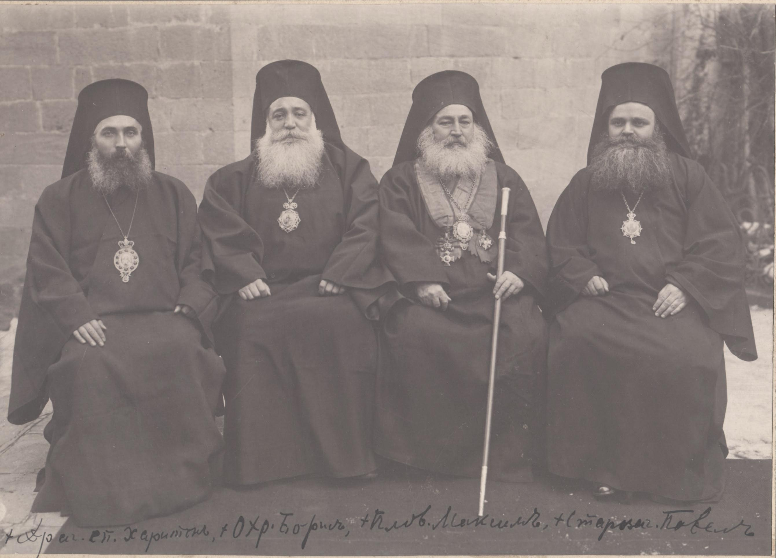 Dragovit bishop Hariton, Boris of Ohrid, Maxim of Plovdiv and Pavel of Stara Zagora in 1924